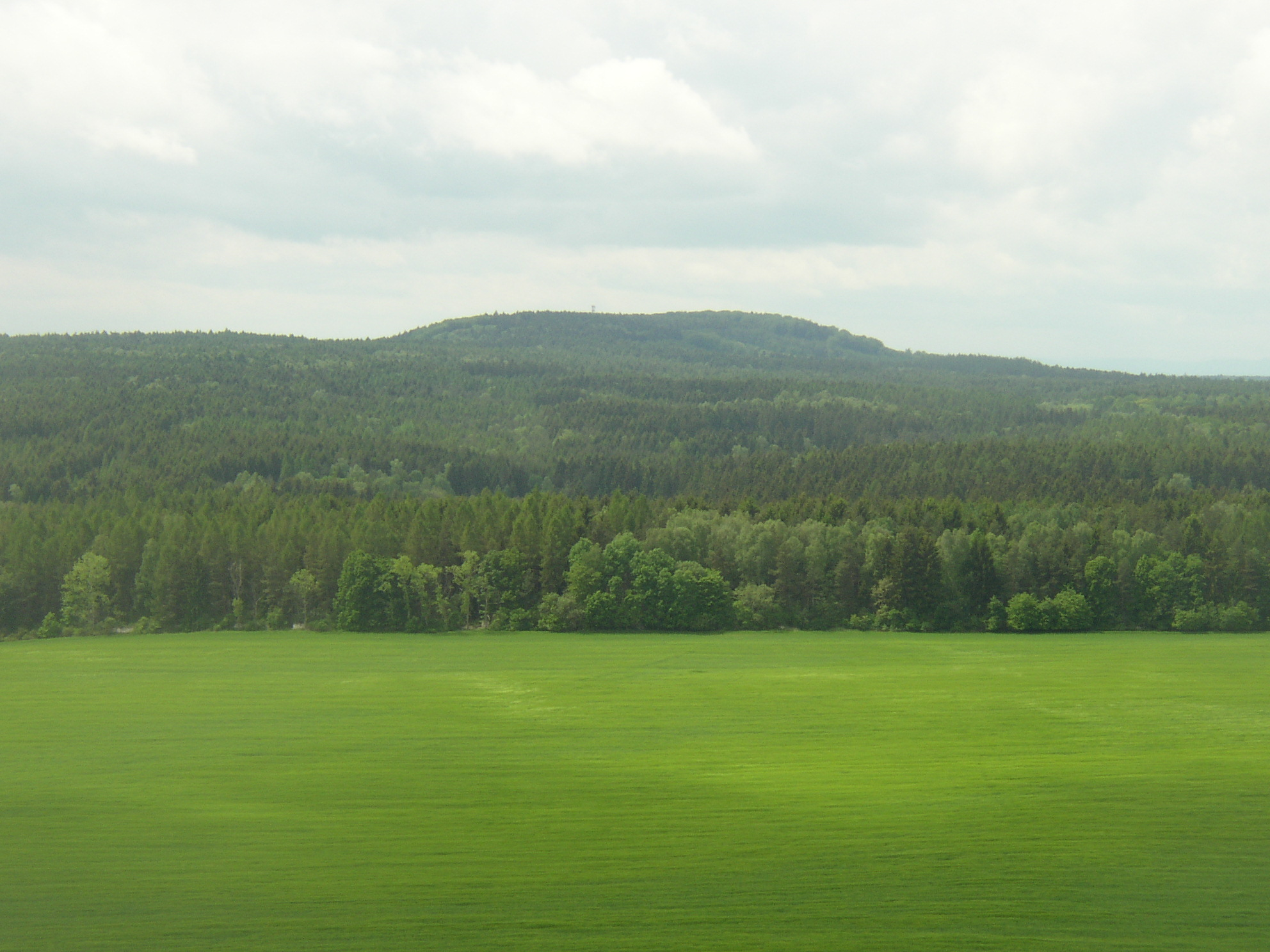 Louštín Hill, Czech Republic. A view from Mackova hora lookout tower near Nové Strašecí towards west.